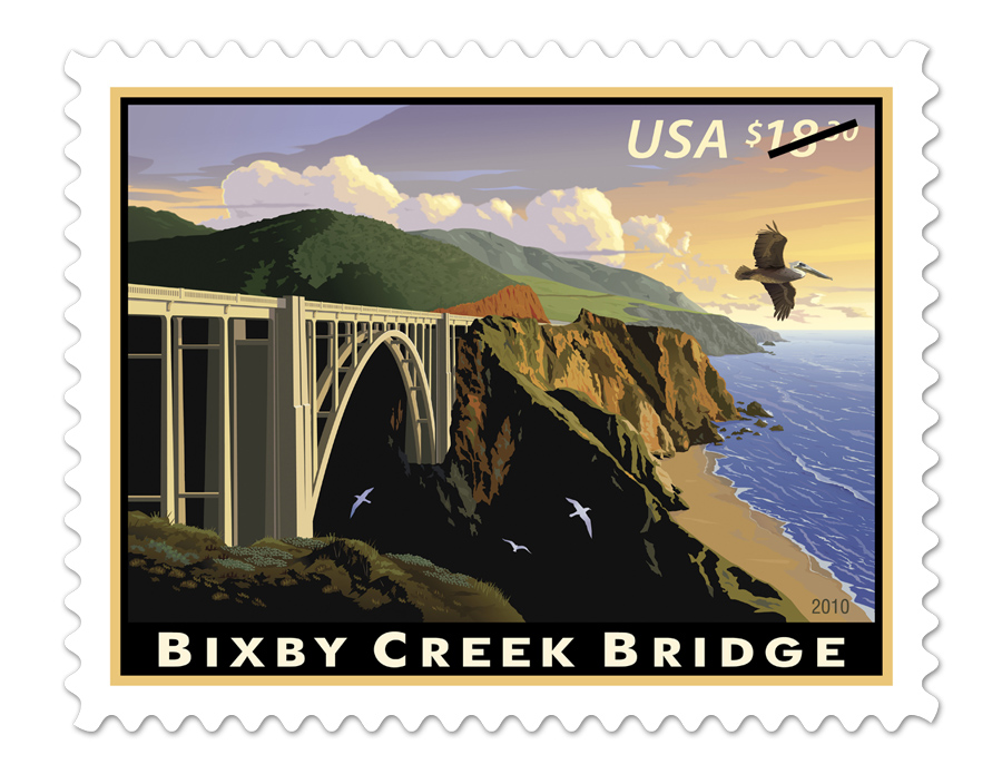 Digital illustration of USPS stamp commemorating Bixby Creek Bridge in Big Sur, California.